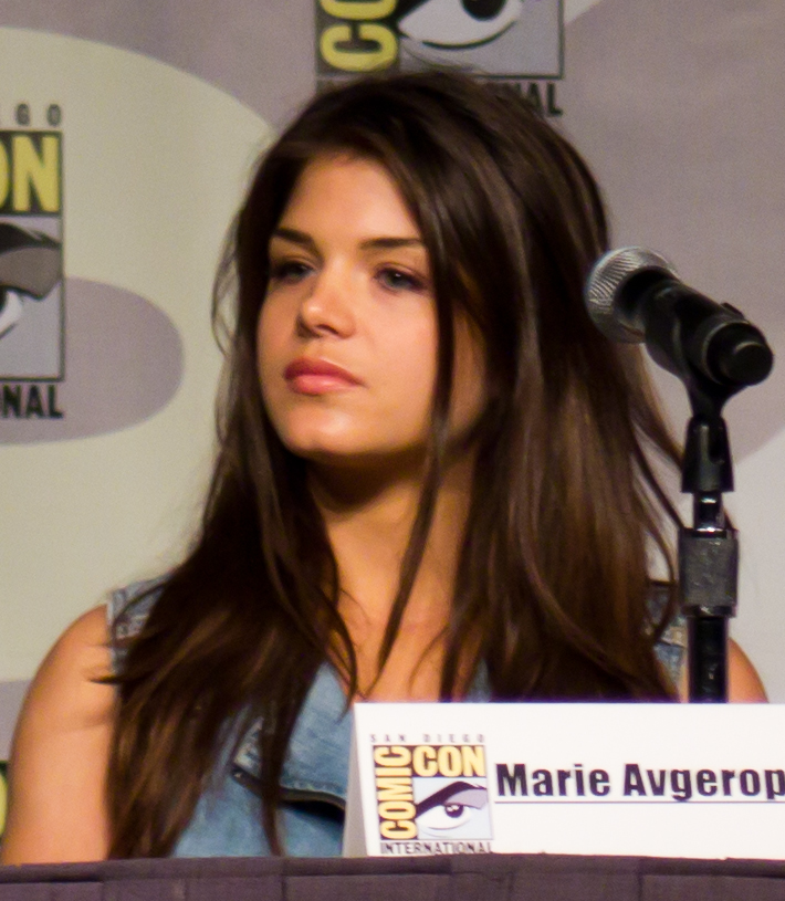 Eliza Taylor, Thomas McDonell, Marie Avgeropolous and Jason Rothenberg on the "The 100" panel at the 2013 Comic-Con.